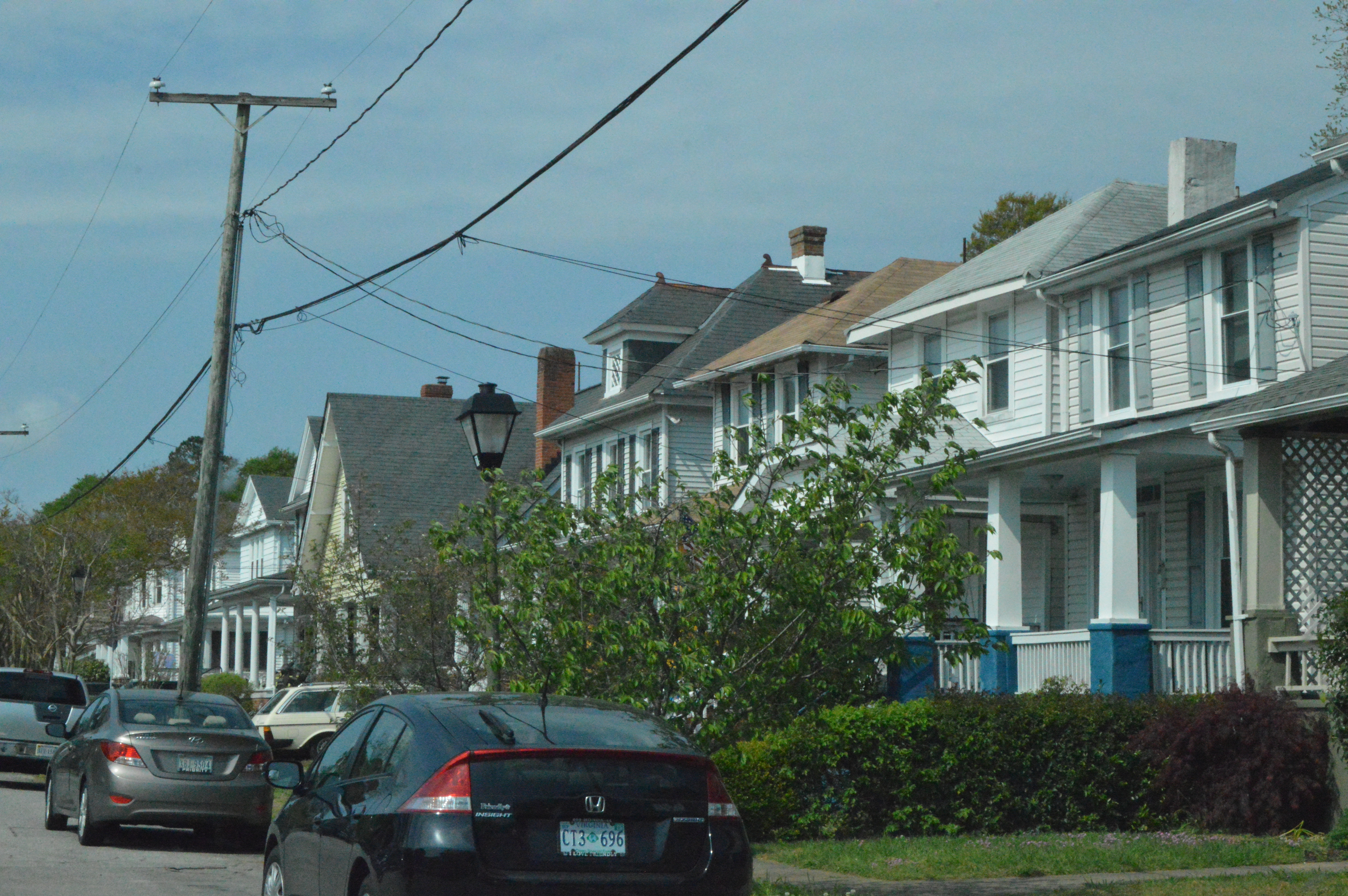 Houses on the northern side of Lucile Avenue east of the Ethel Avenue intersection in Norfolk, Virginia, United States. This block is part of the Riverview neighborhood, a historic district that is listed on the National Register of Historic Places.